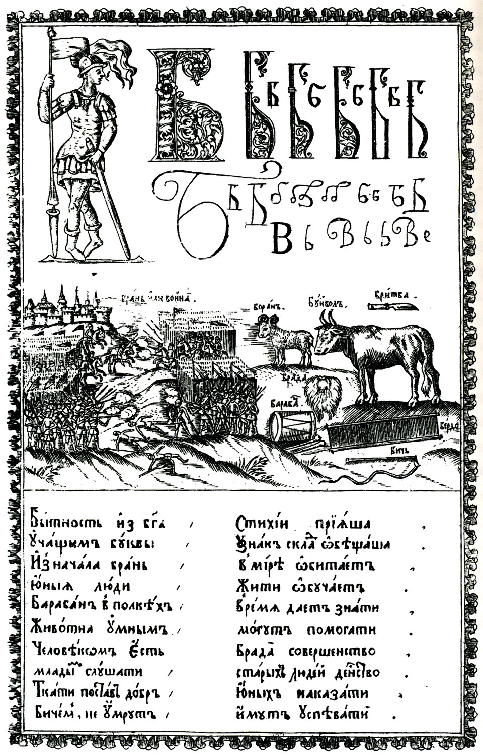 Karion Istomin's alphabet book - cyrillic letter B (Б).